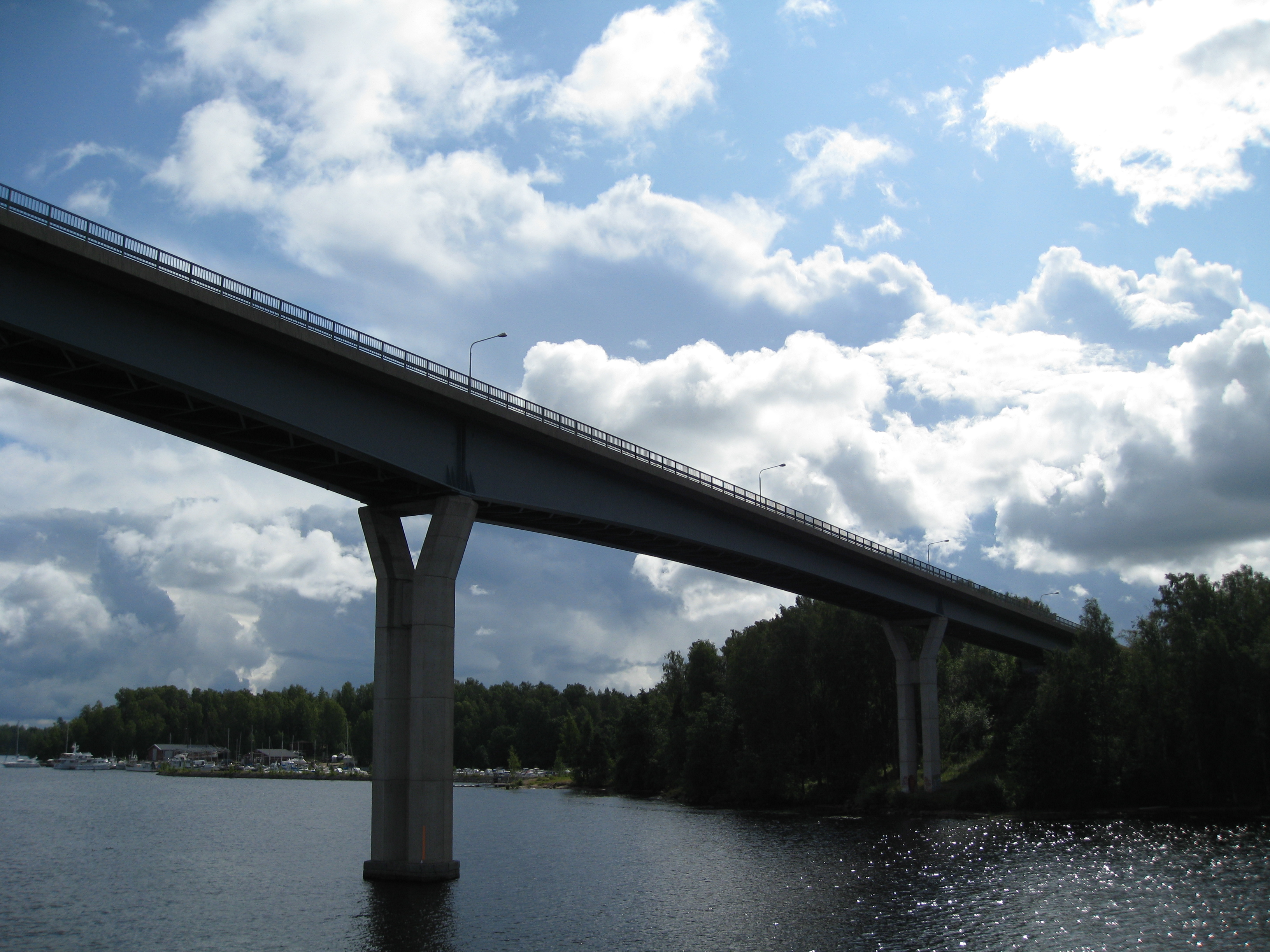 Luukkansalmi bridge on connecting road 4081 in Lappeenranta, Finland